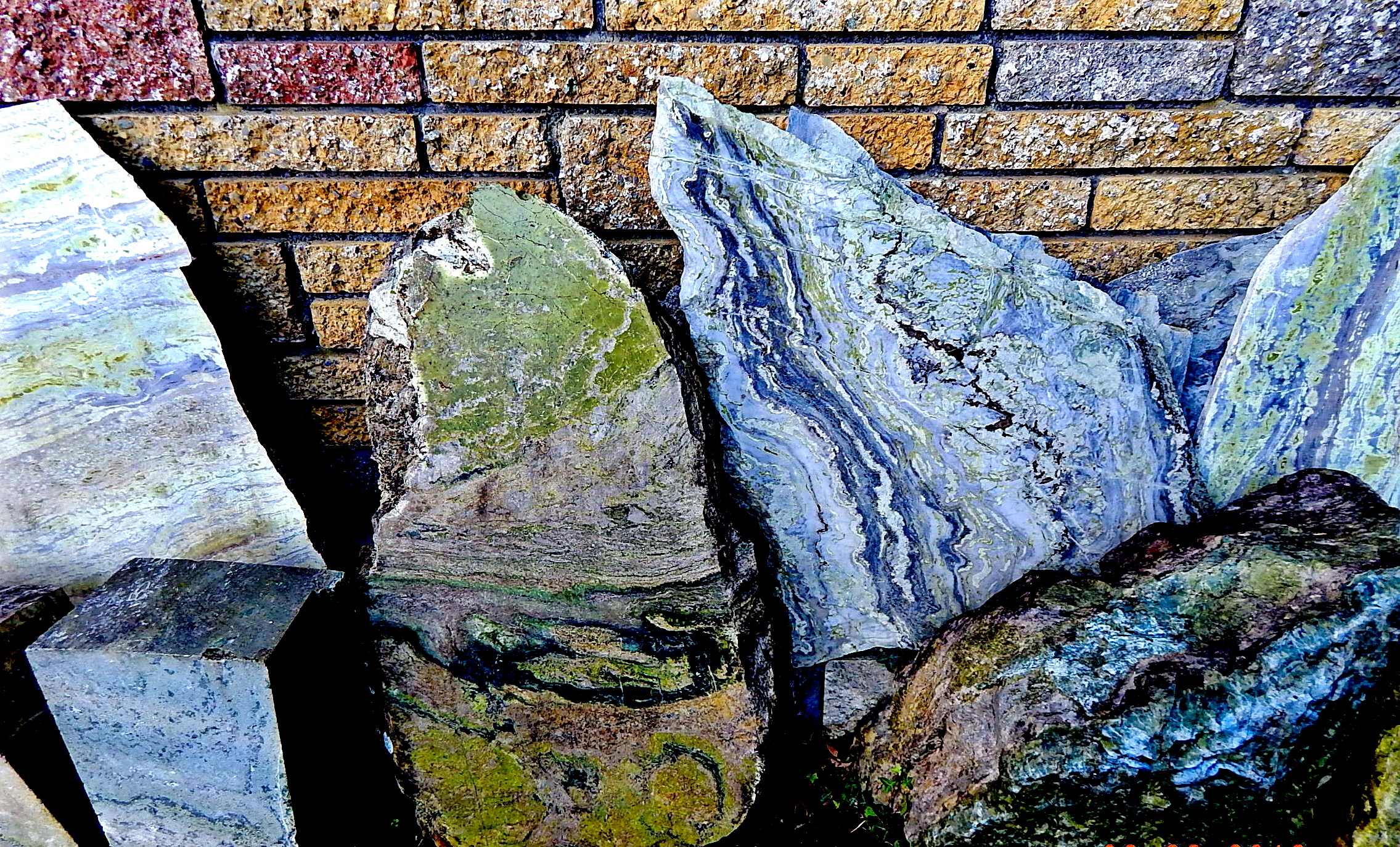 View is to the southwest. These slabs are on display outside near the entrance. In the past, much larger slabs were quarried, cut & polished for use as flooring and window sills in abbeys, churches, cathedrals, friaries & monasteries primarily. Today, only small pieces of Connemara Marble are sold, as the supply is starting to dwindle.